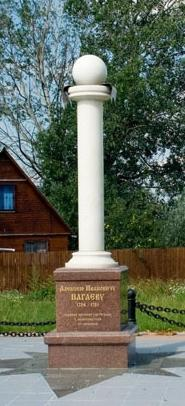 Monument in Sertyakino willage, Russia. (Alexey Ivanovich Nagaev).